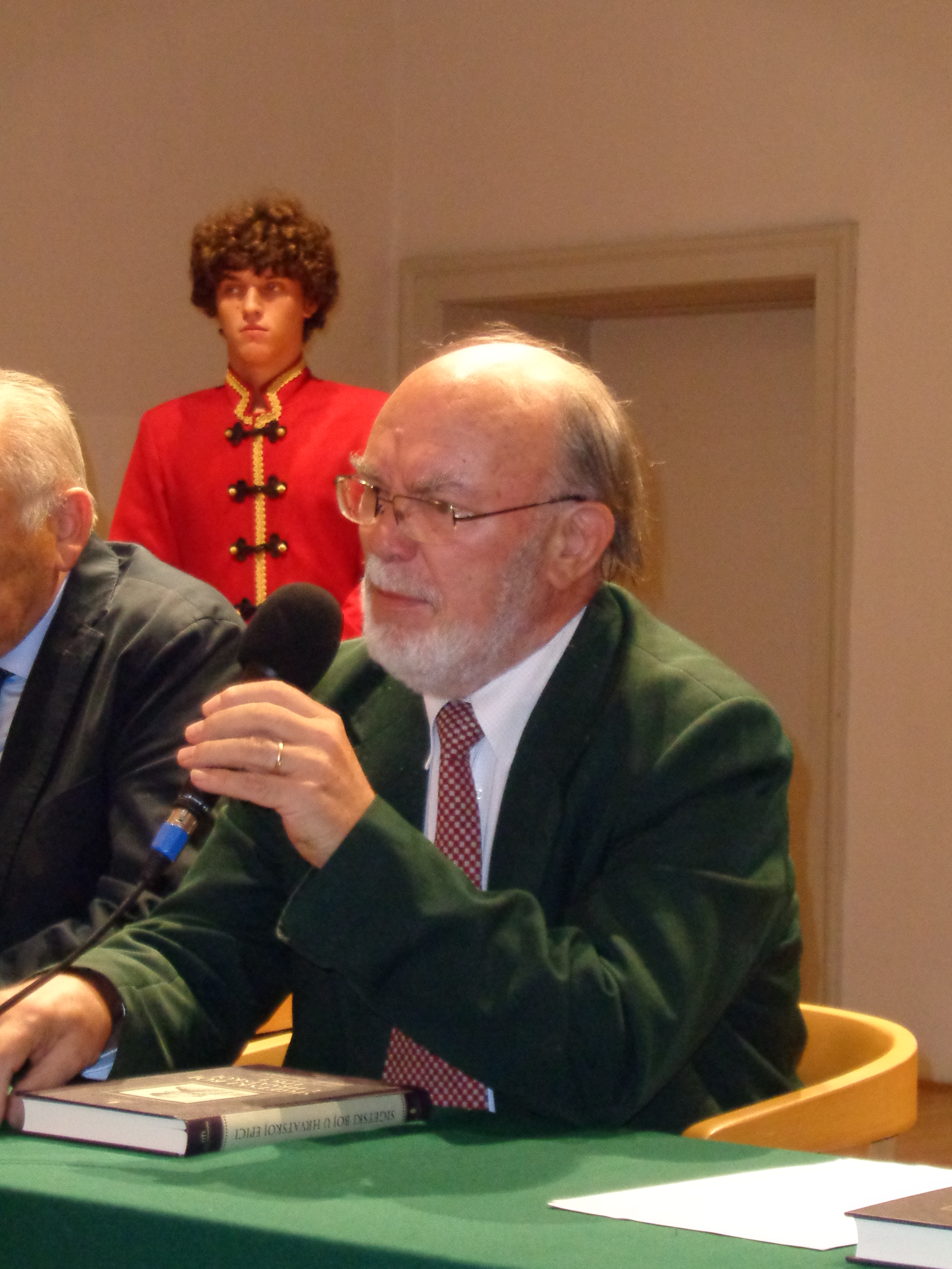 Academician Josip Bratulić, member of the Croatian Academy of Sciences and Arts, at the "Battle of Szigetvar in Croatian epic" book promotion in Čakovec, Croatia (Author: Ivan Pranjić)